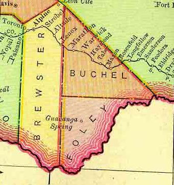 The 1895 Rand McNally Texas map showing Foley and Buchel Counties.